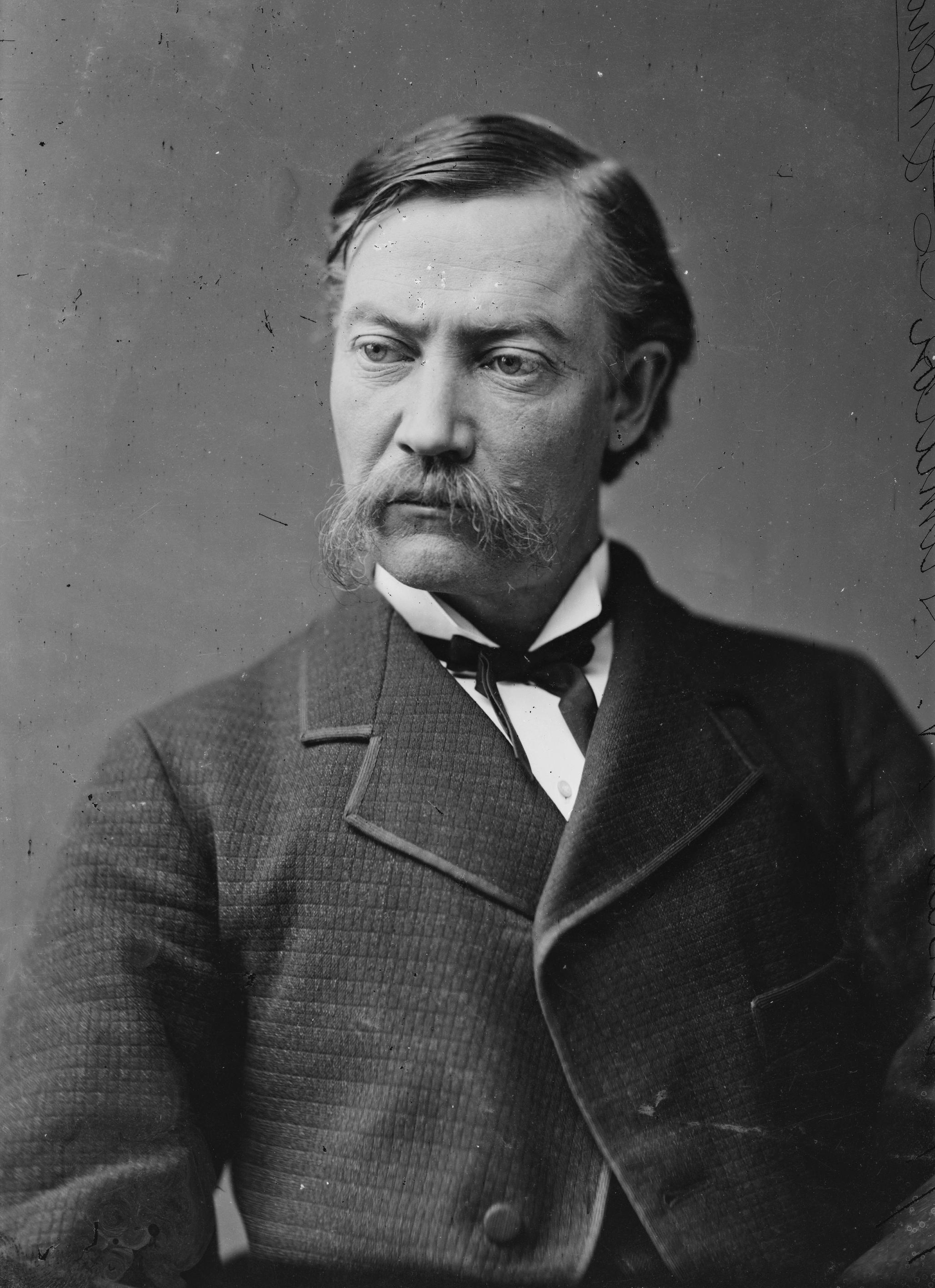 Andrew H. Hamilton (Indiana). Library of Congress description: "Hamilton, Hon. Andrew H., of Ind."